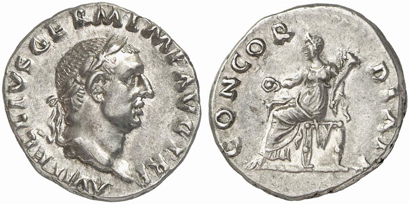 Vitellius. AD 69. Denarius (Silver, 3.47 g 6), Rome, April-December 69. A VITELLIVS GERM IMP AVG TR P Laureate head of Vitellius to right. CONCORDIA P R Concordia seated left, holding patera and cornucopiae. BMC 20. BN 52. Cohen 18. RIC 90. An excellent, lustrous piece with a fine portrait. Extremely fine.